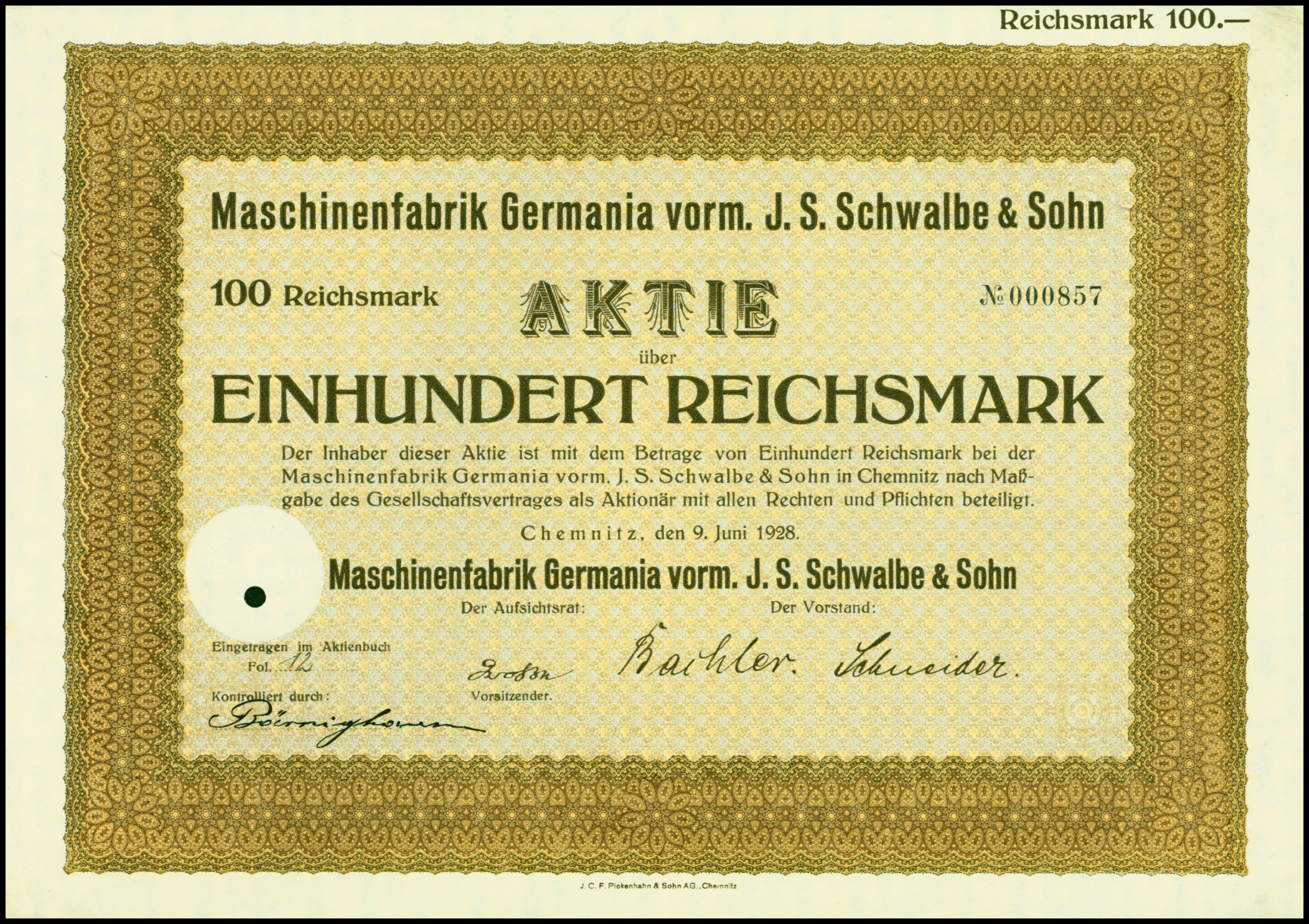 Share of the Maschinenfabrik Germania vorm. J. S. Schwalbe & Sohn, issued 9. June 1928